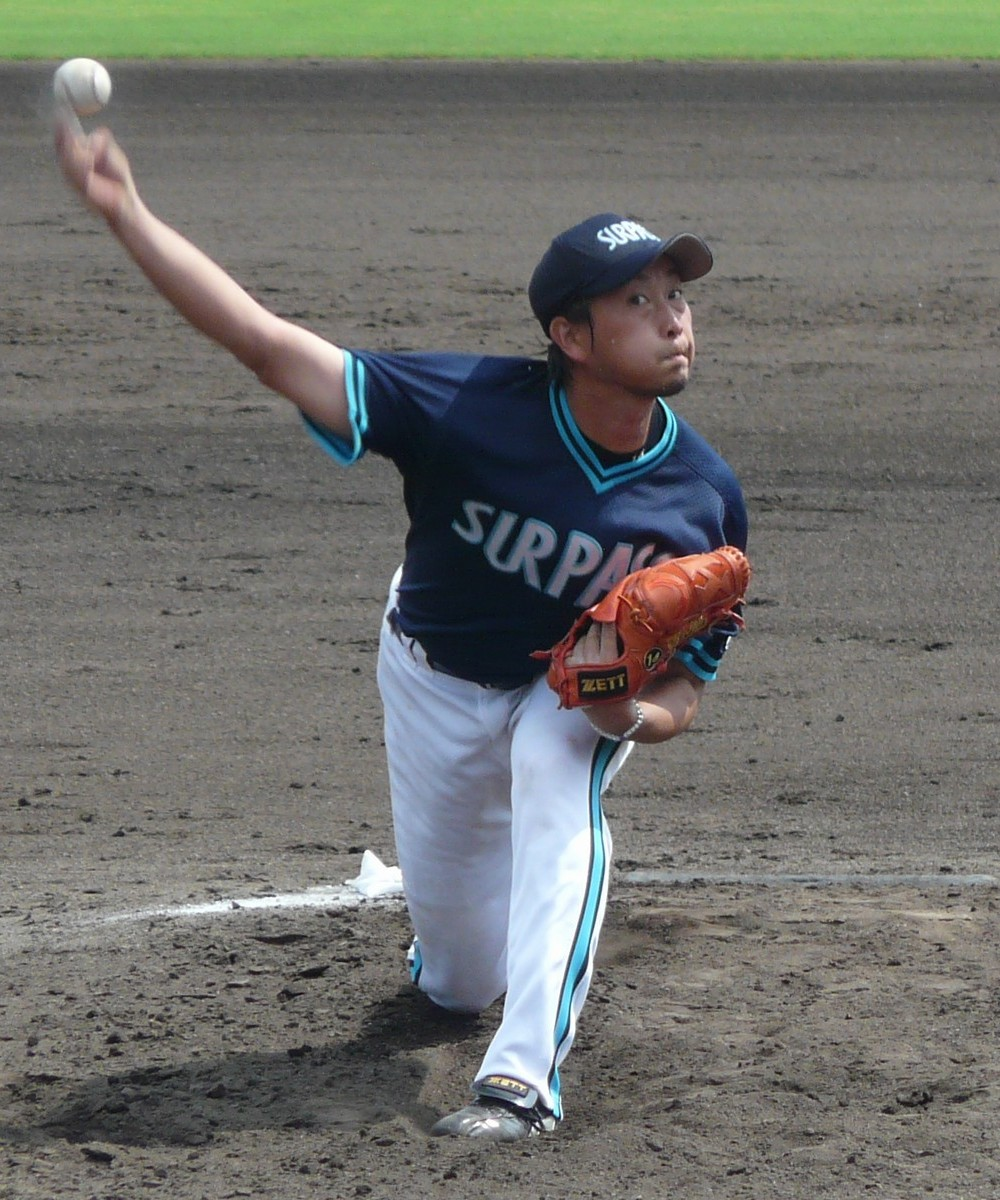 Mamoru Kishida, pitcher of the Surpass, at Hanshin Naruohama Baseball Ground.